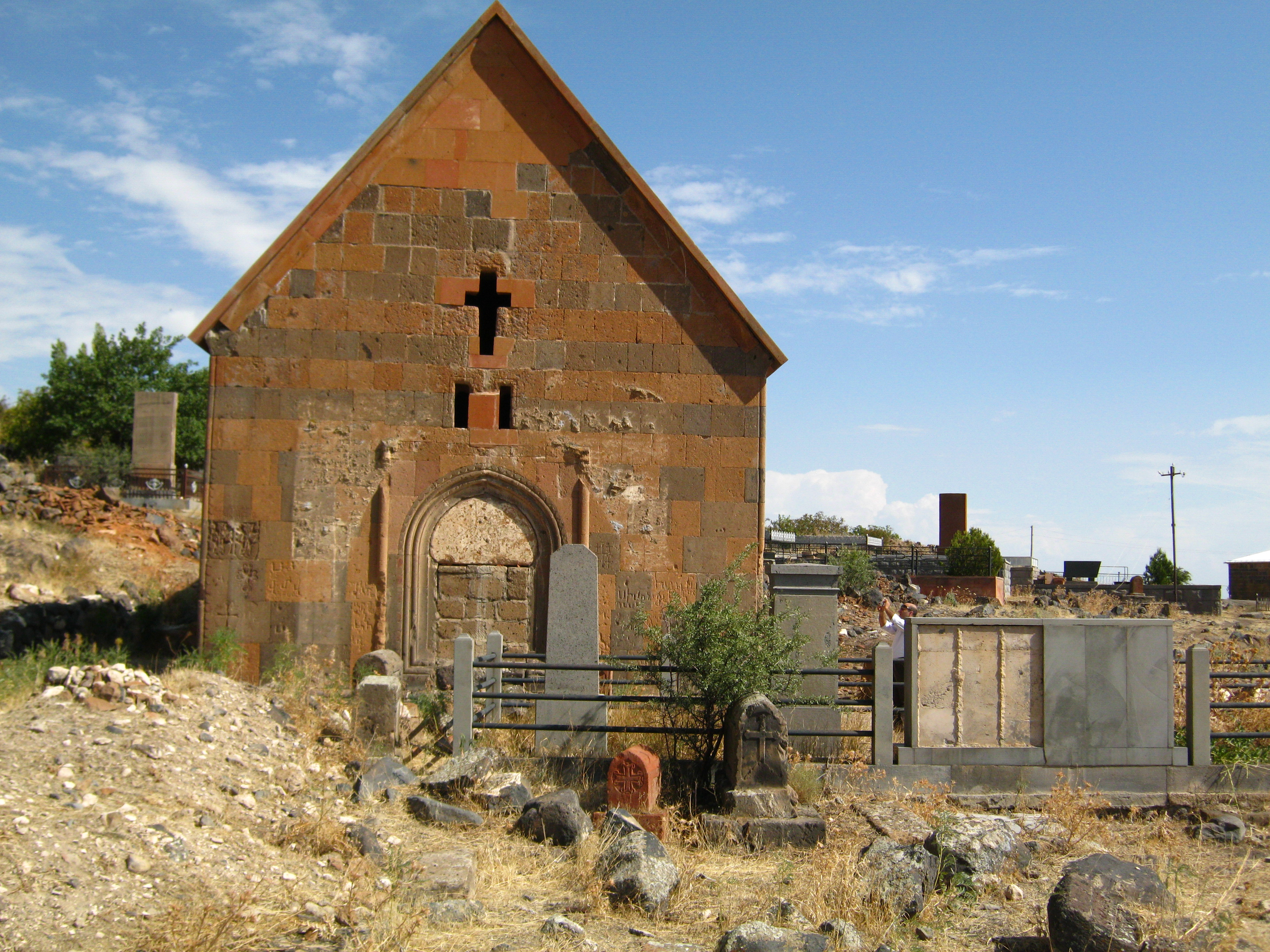 St Grigor Lusavorich church in Kosh (13-14 cc.)